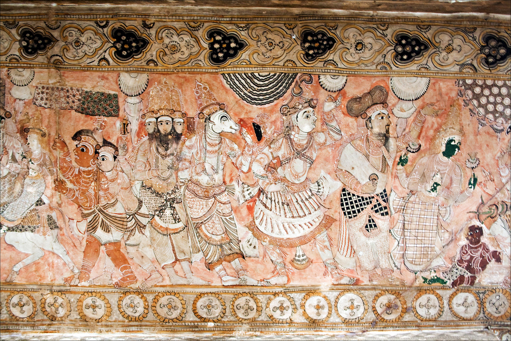 Lepakshi Temple Ceiling